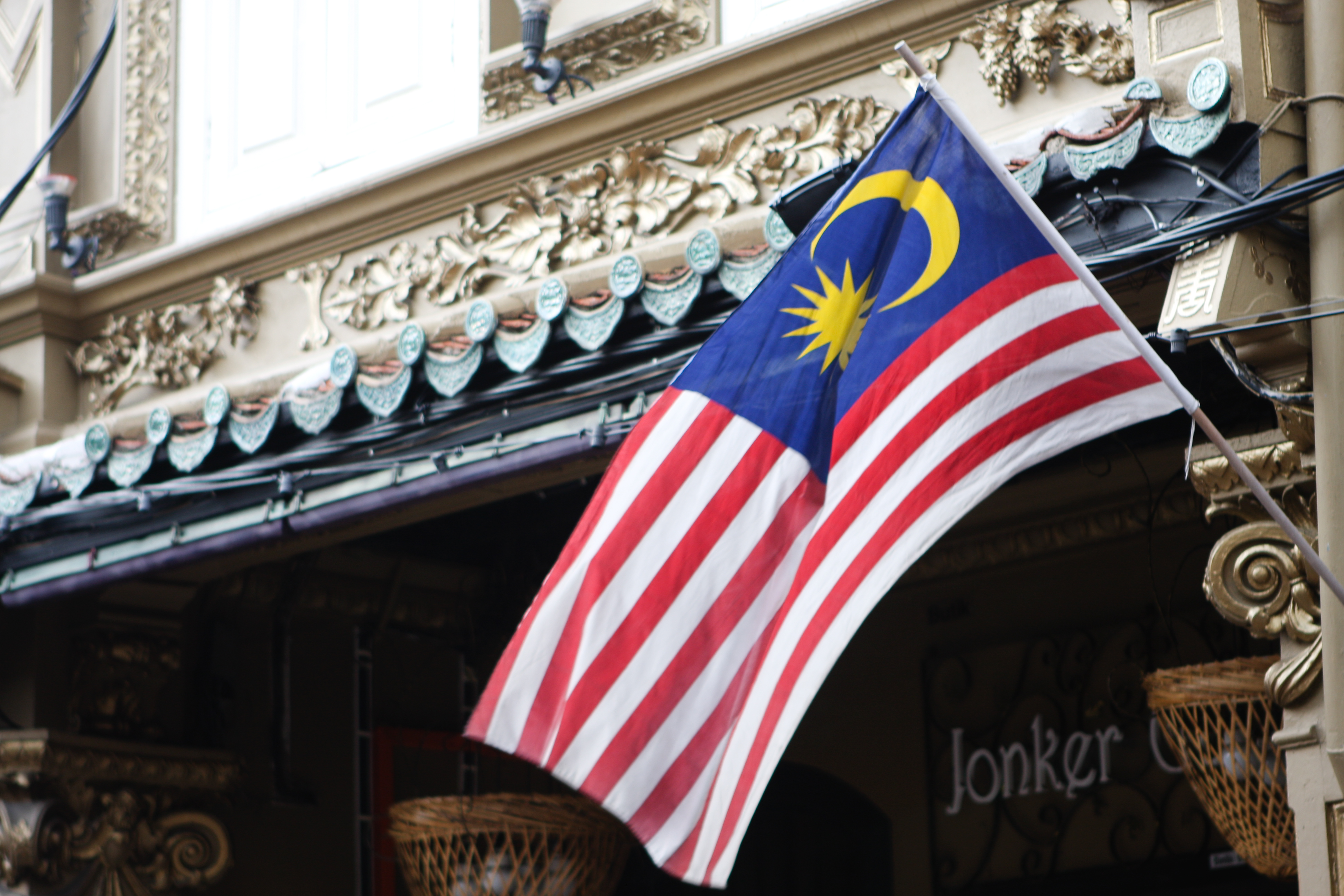 Malaysian flag flying outside a shop on Jonker street. Malacca, Malaysia, October 2009